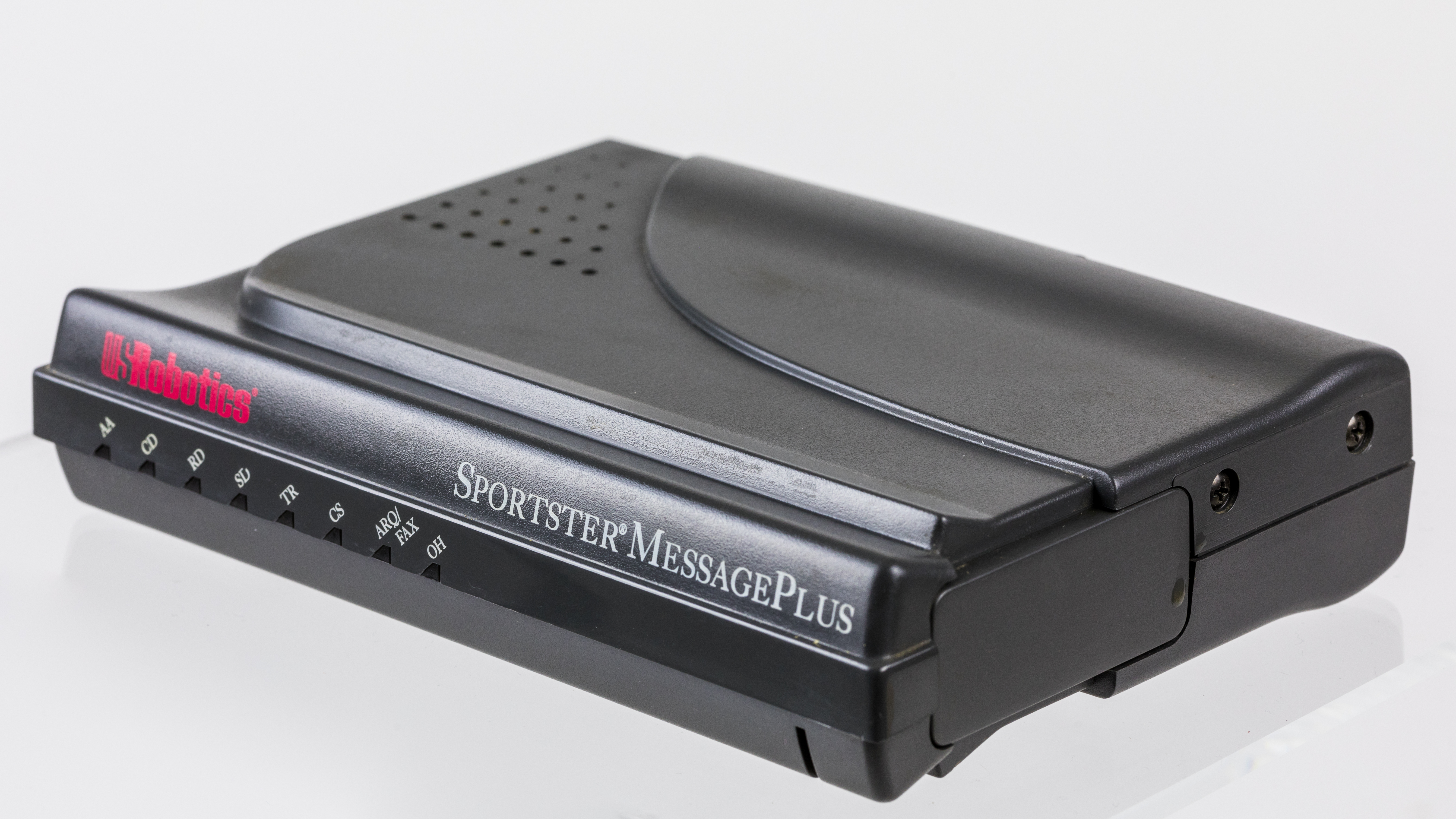 U.S. Robotics Sportster Message Plus